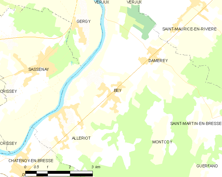 Map of French municipality